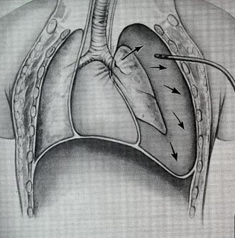 Main bronchus laceration. Caption reads, "FIGURE 5.—Schematic showing of results of laceration of main bronchus. This injury will always produce a pneumothorax with leakage of large amounts of air even under closed drainage with strong suction. Thoracotomy is indicated."